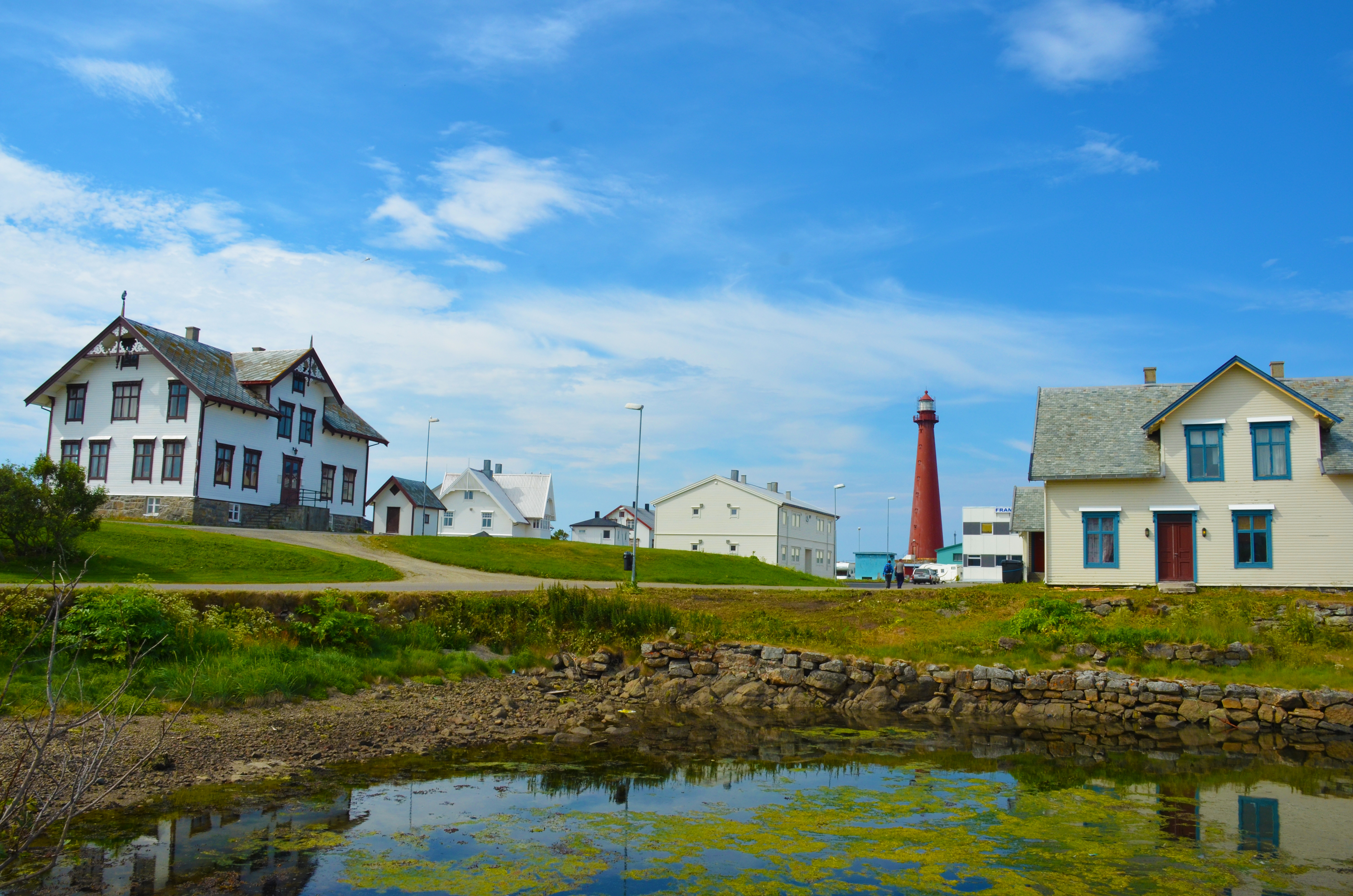 Andenes village in Andøy municipality, Norway.